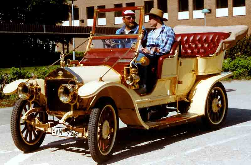 Wolseley-Siddeley Tourer 1909